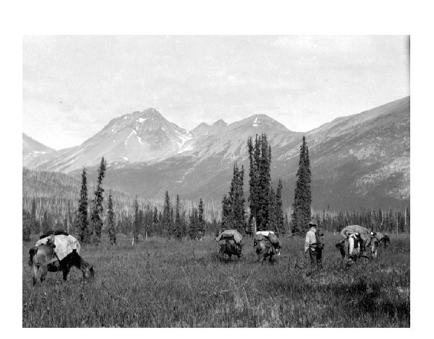 Swannell's pack train at the Omineca Mountains. Photo taken 1913.